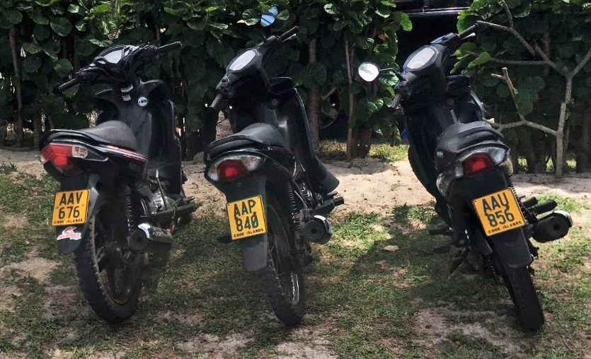 Cook Islands motorcycles